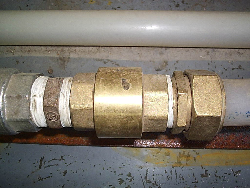 Check Valve in PEX pipe